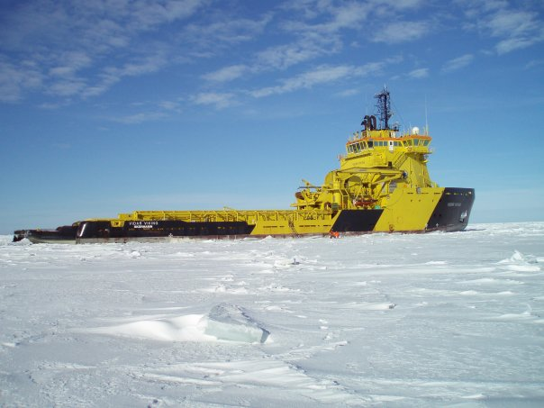 Vidar Viking in the Baltic Sea.